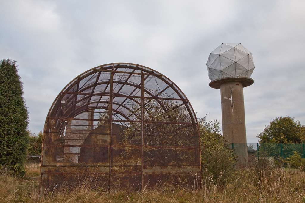 A photograph of the radar equipment in use by the Met Office at the former RAF base outside the village of Chenies, Buckinghamshire, England.